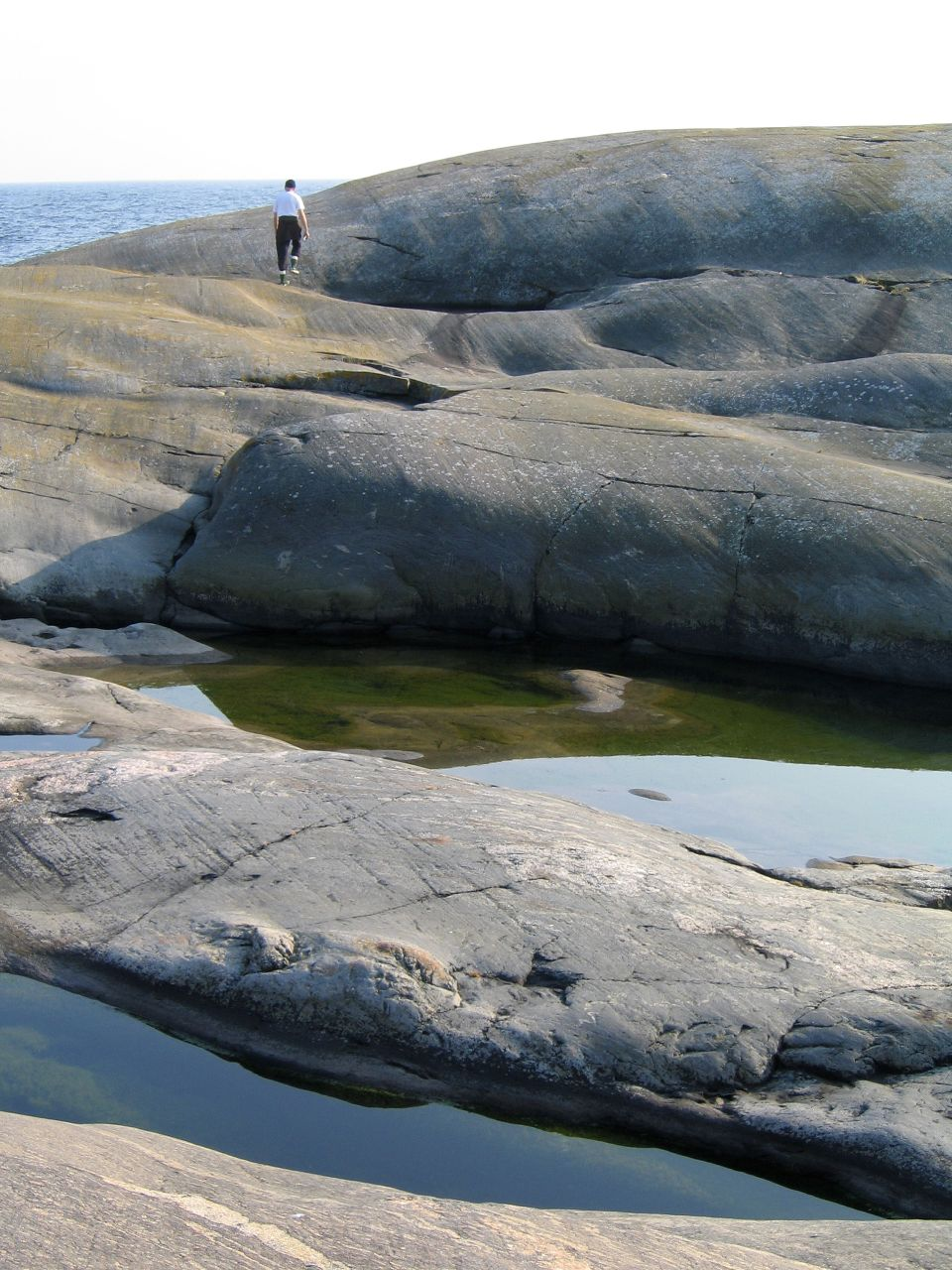 Söderskär island